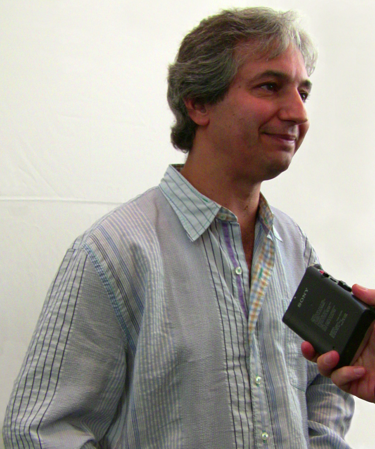 Writer/producer David Shore at TV series House event at Paley Center for Media, Beverly Hills, California.